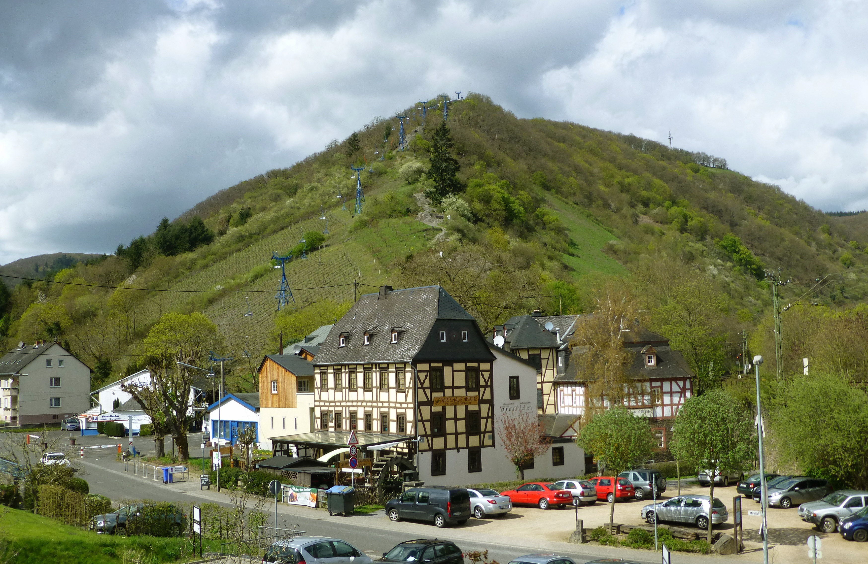 Chairlift in Boppard. Restaurant Anders with water millwheel.